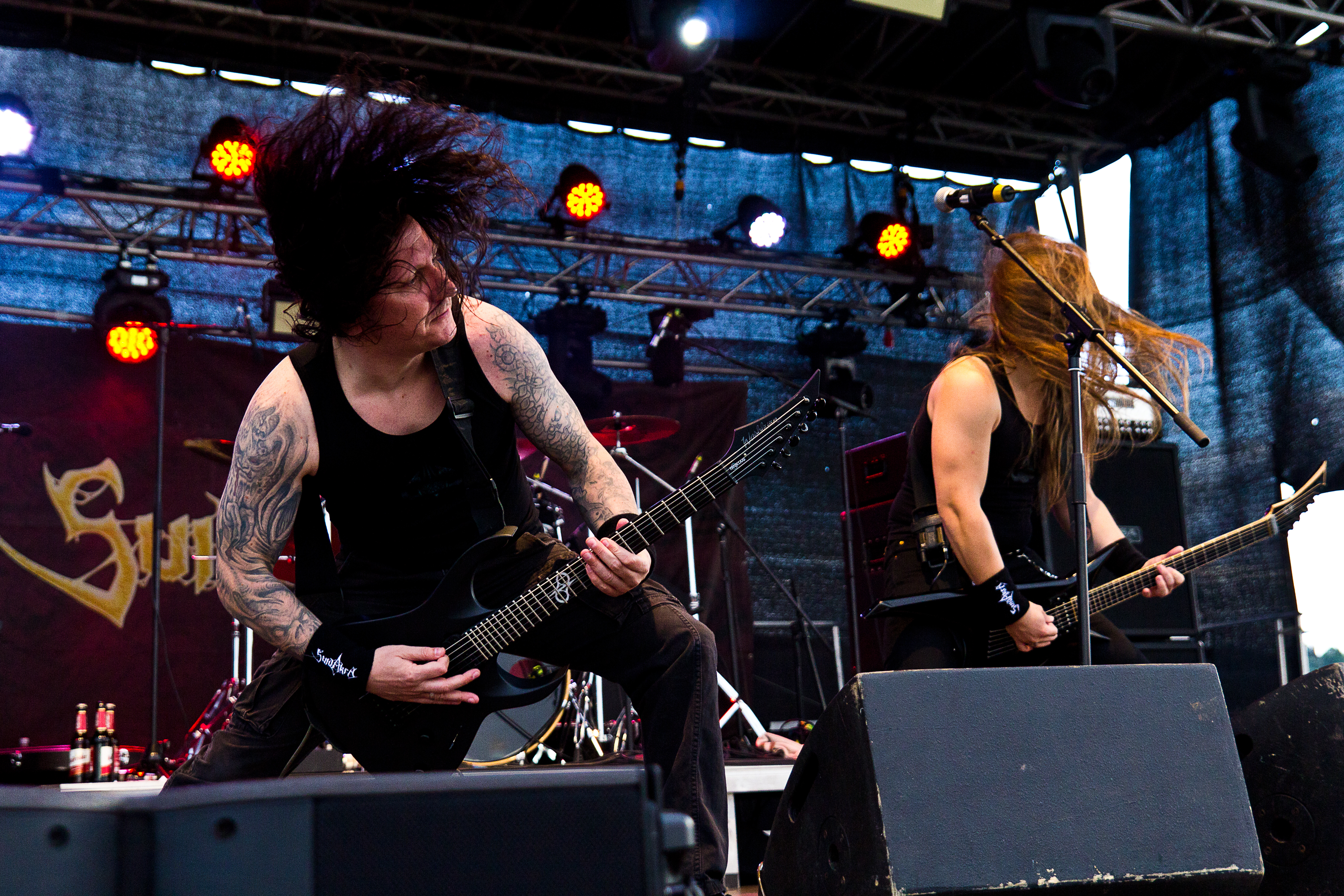 The German melodic death metal band Suidakra at the Rockharz Open Air 2015 in Ballenstedt/Germany.